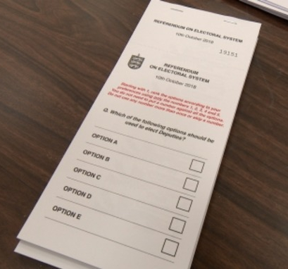 Voting Ballot used for the 2018 referendum on Guernsey